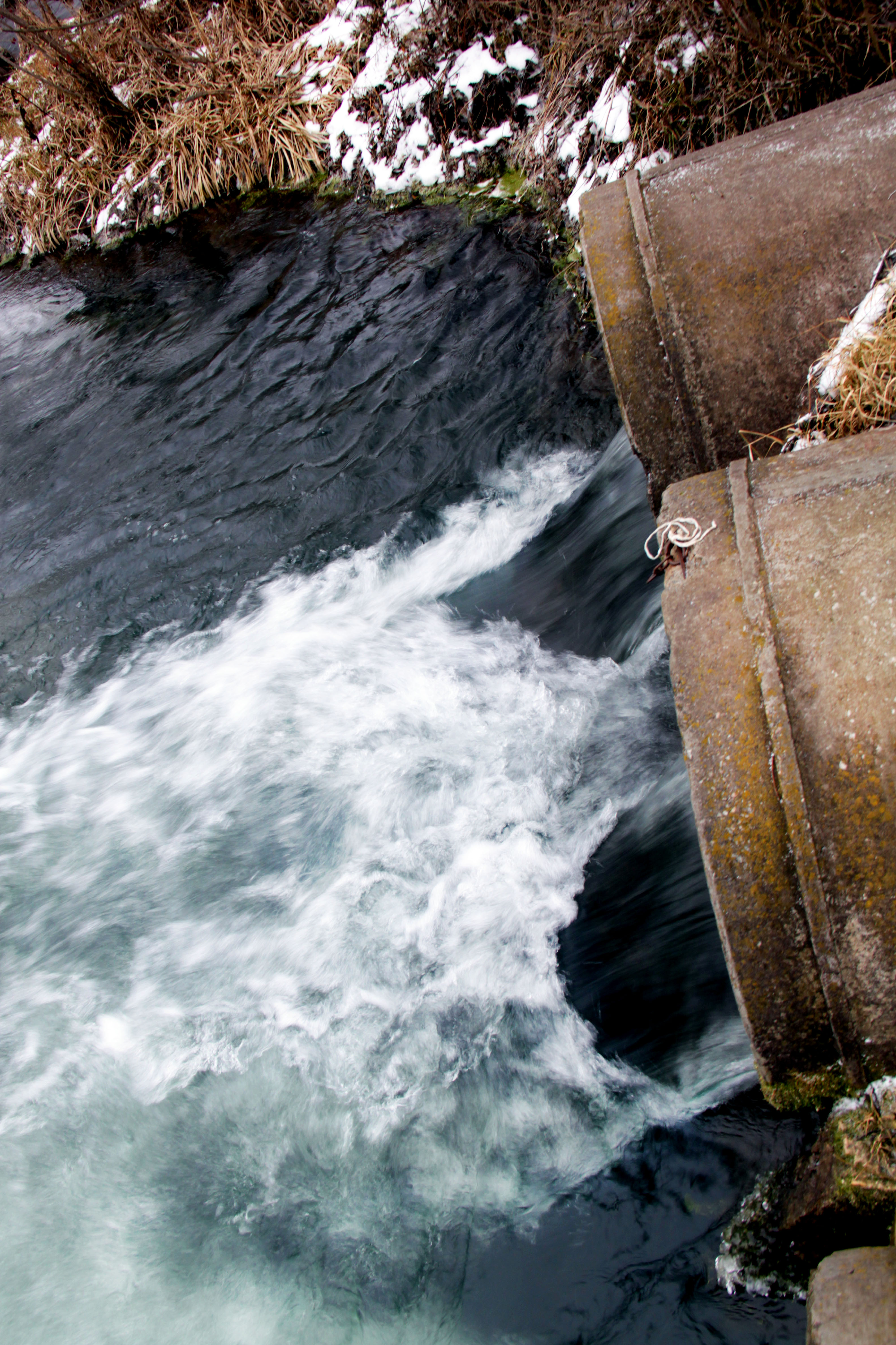 В деревне Тюково